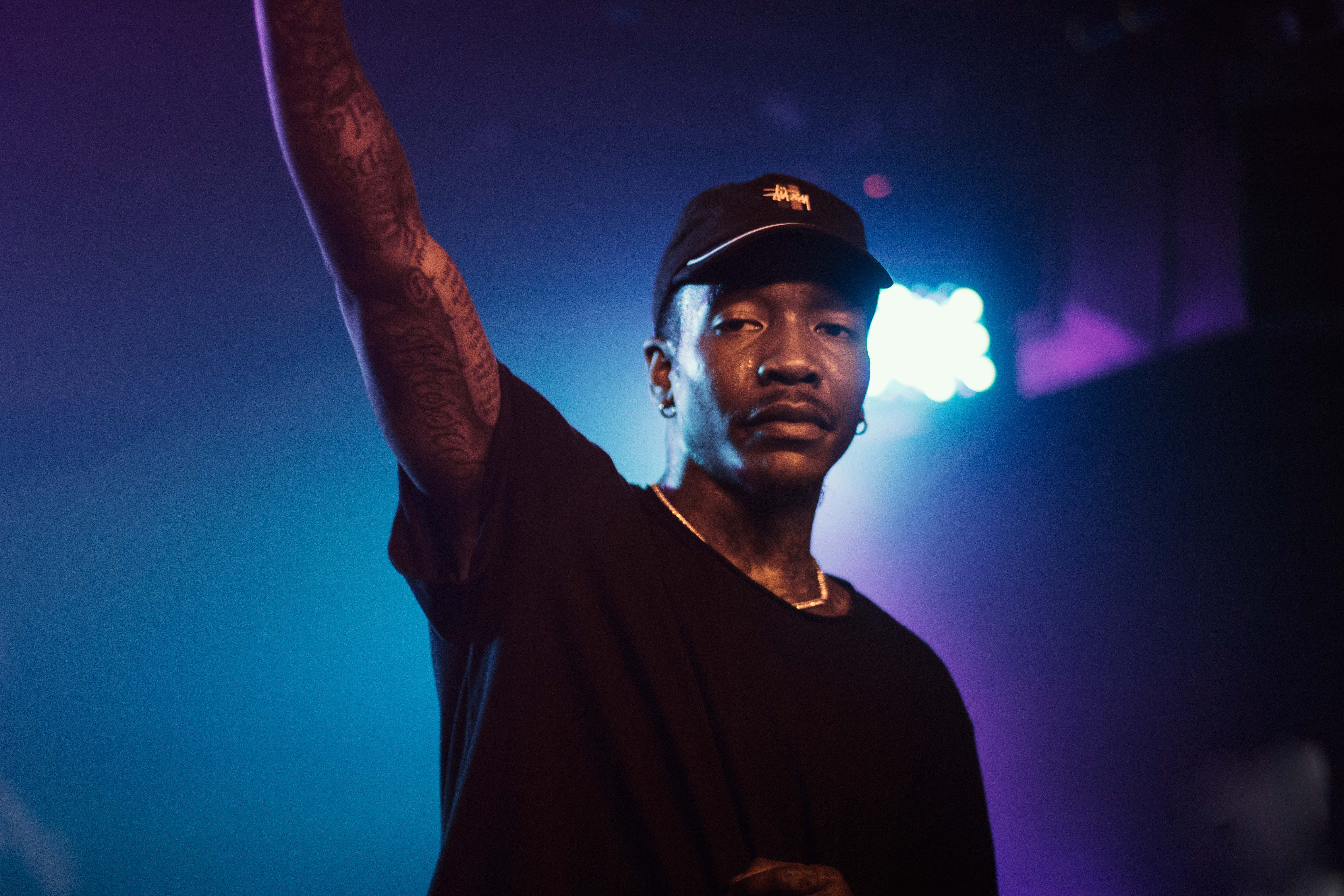 Dizzy Wright live with support from Marlon Craft Shot for the Come Up Show Shot by Mac Downey (@mac.downey) Shot at the Velvet Underground on Feb 15th, 2018